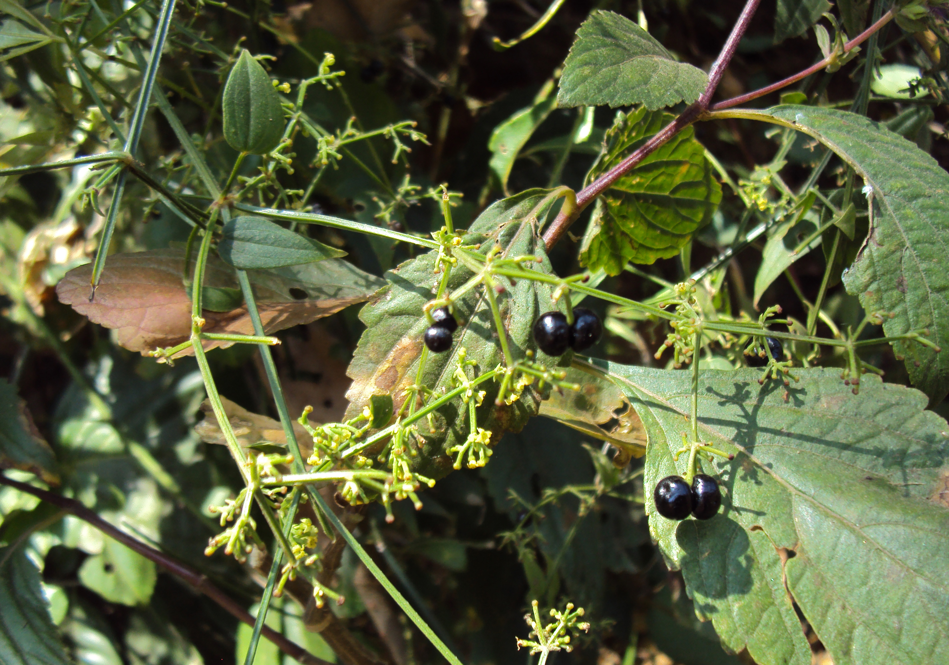 Rubia Cordifolia